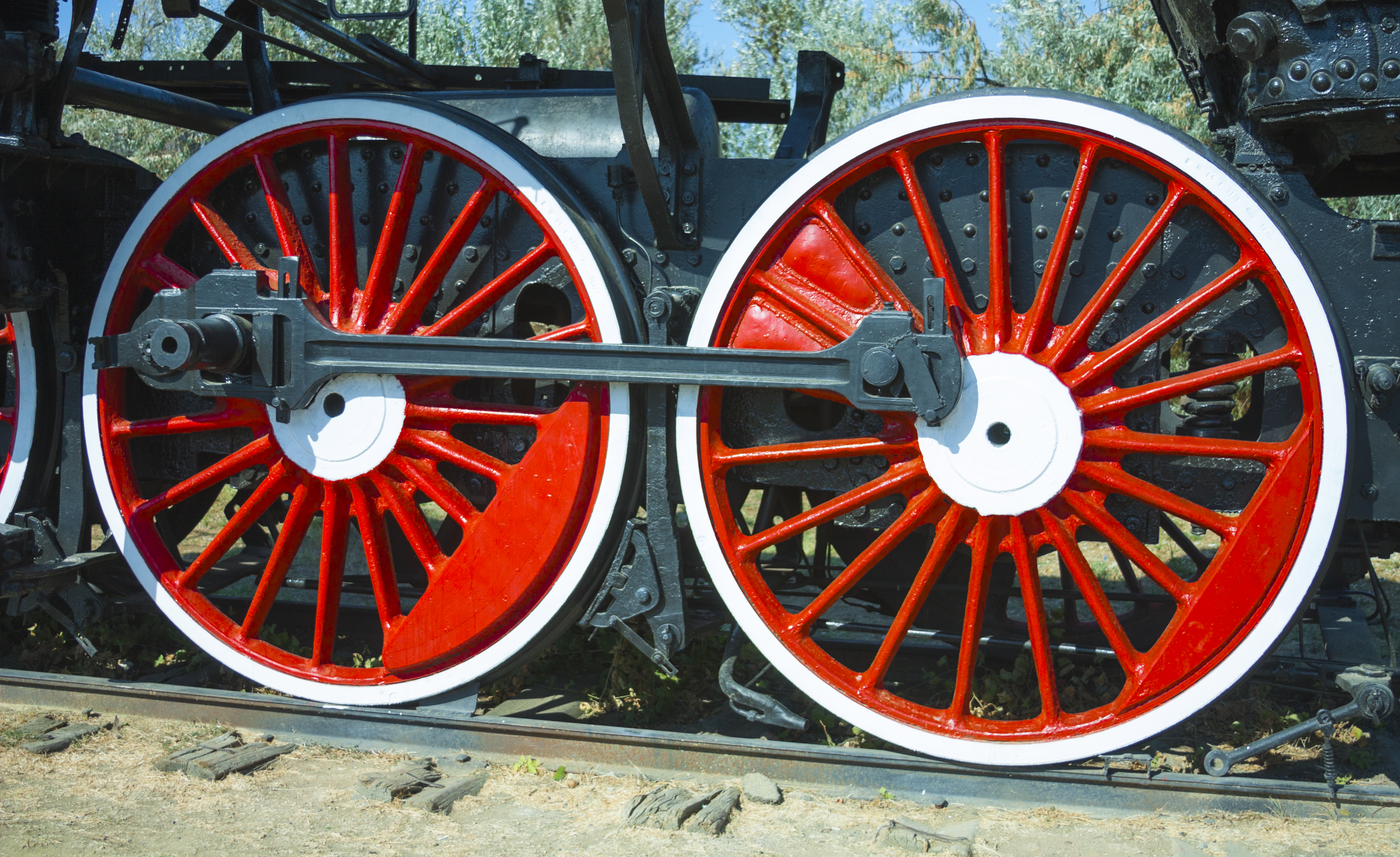 locomotive wheels